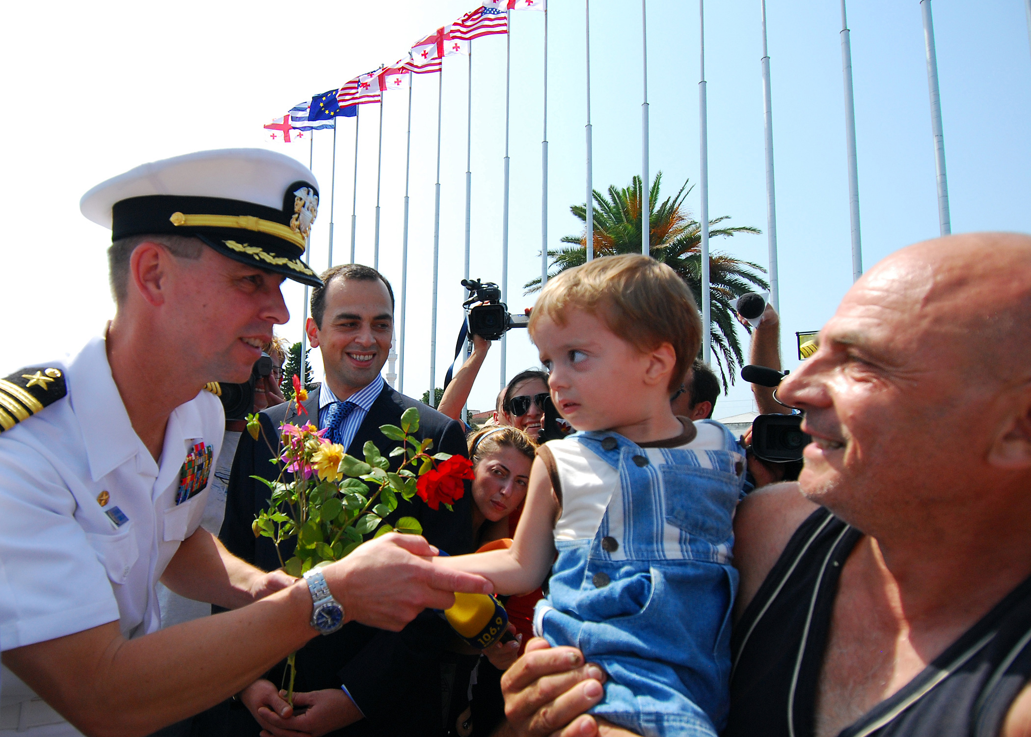 BAT'UMI, Republic of Georgia (Aug. 24, 2008) Capt. John Moore, commodore, Combined Task Force (CTF) 367, greets local residents and receives flowers shortly after the arrival of the guided-missile destroyer USS McFaul (DDG 74) to the port of Batumi. CTF-367 is the lead maritime component for the humanitarian assistance mission to the people of Georgia. U.S. Navy photo by Mass Communication Specialist 3rd Class Eddie Harrison (Released)